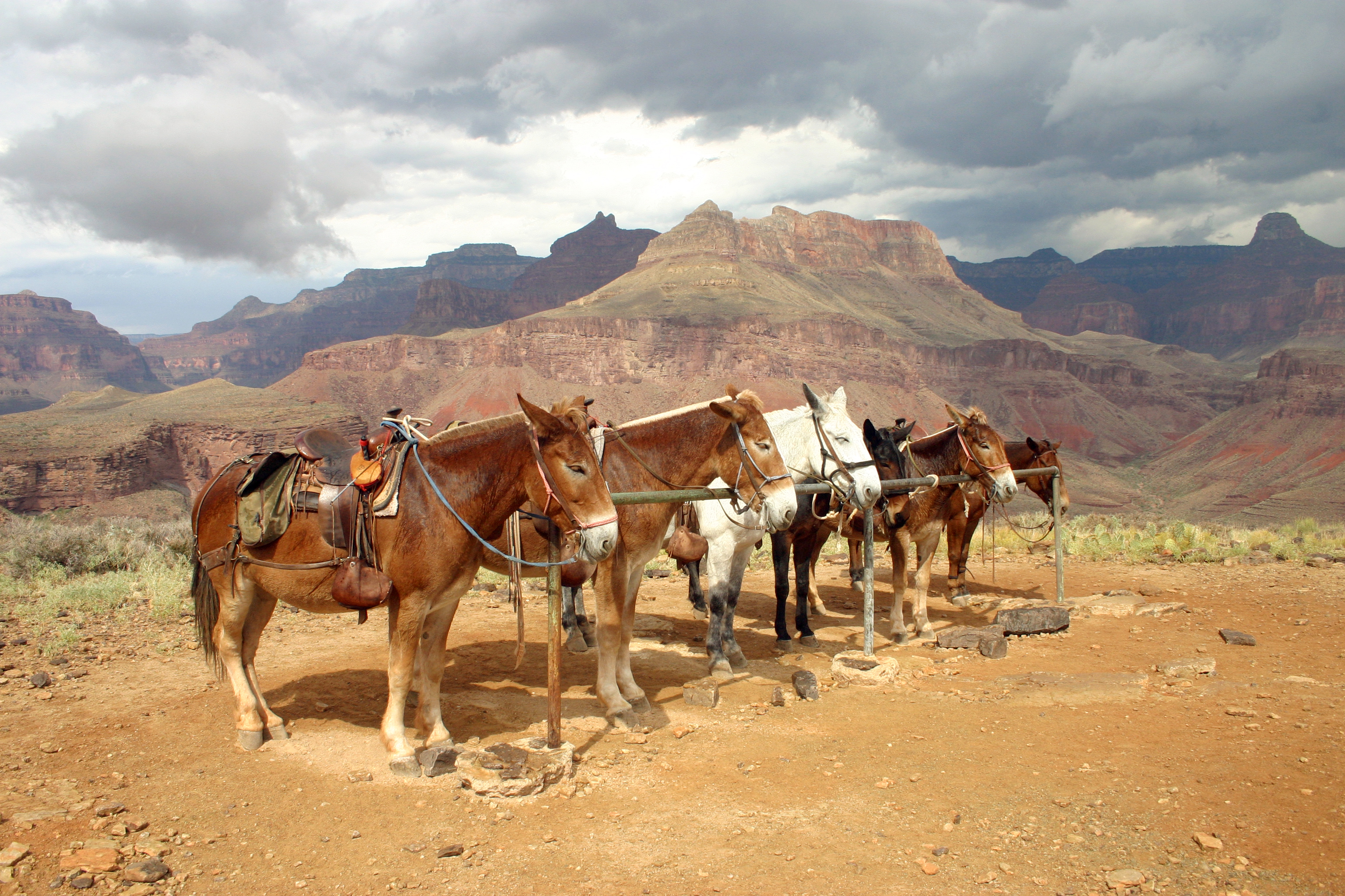 Location - The Grand Canyon South Rim. Mules parked at the edge of the canyon